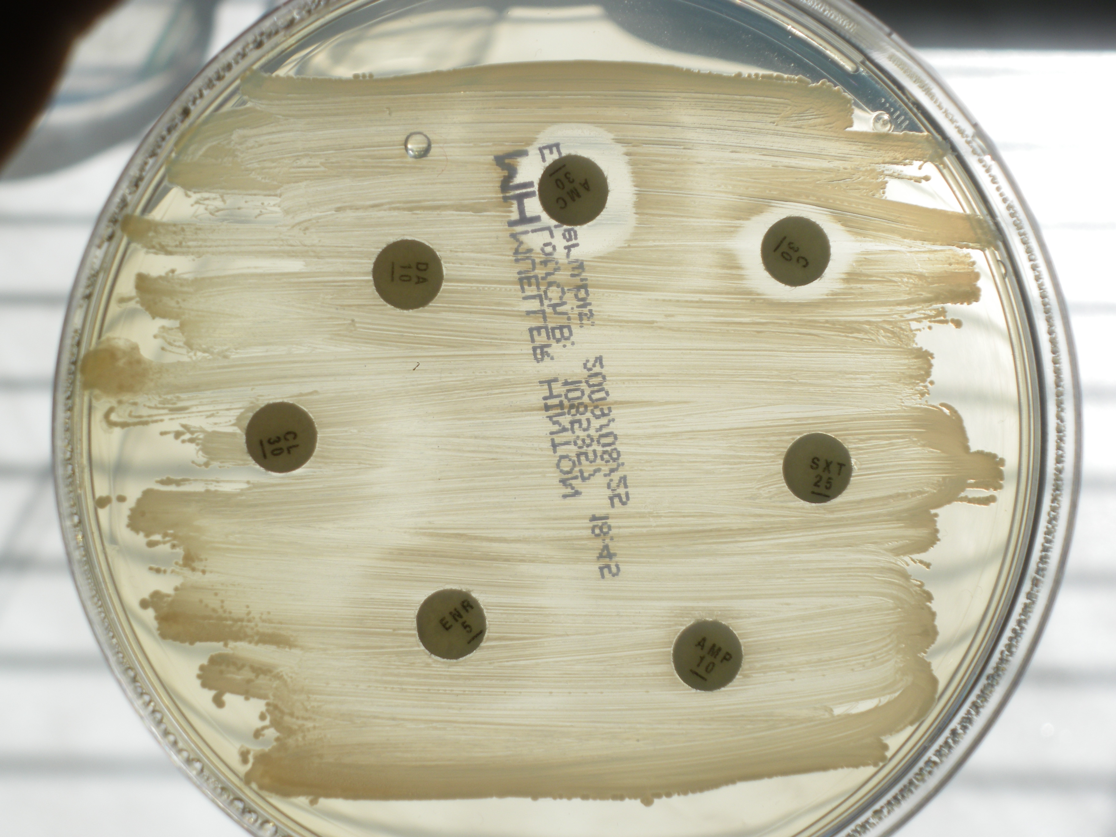 antibiogram on Mueller Hinton agar